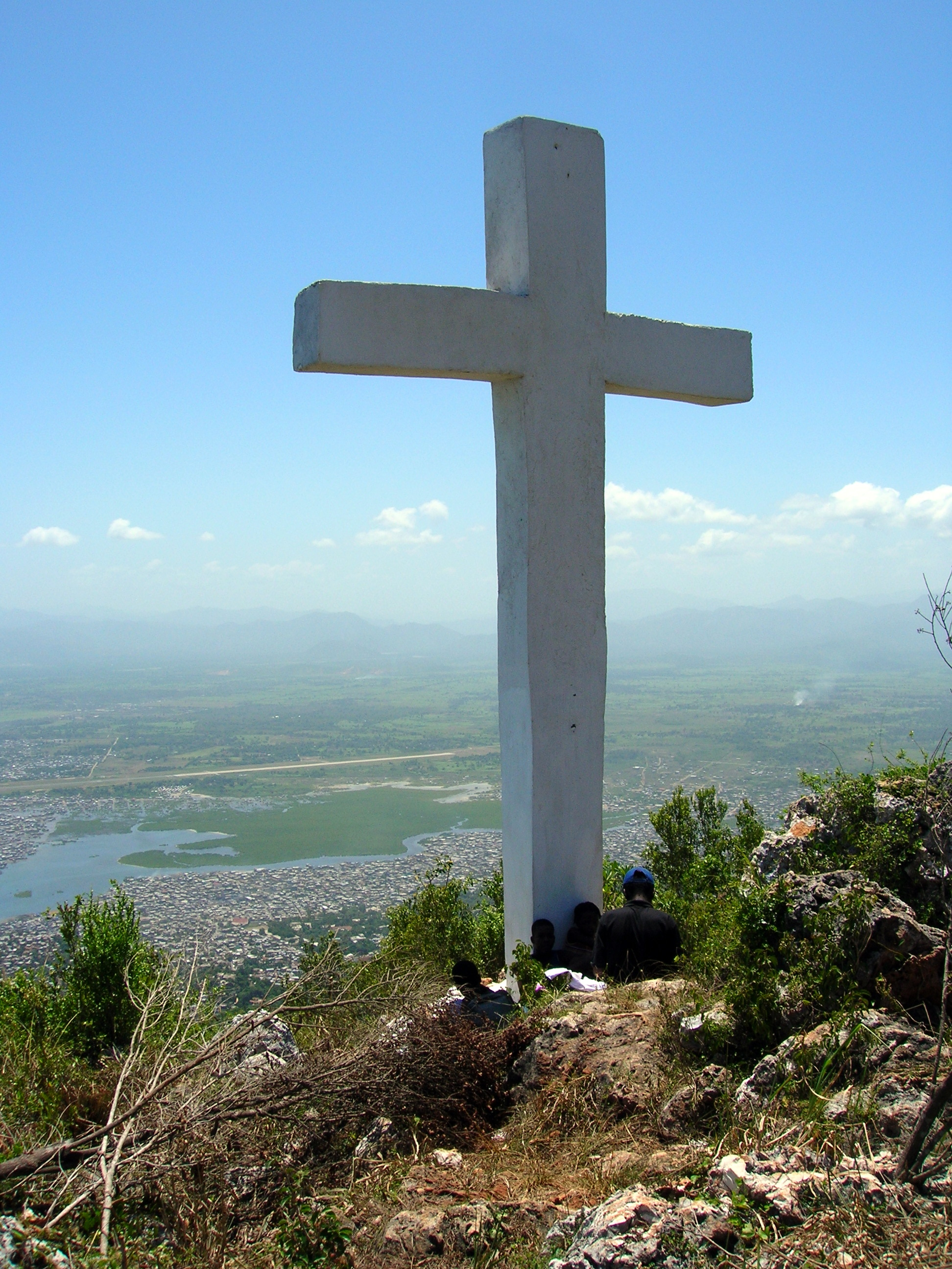 The cross on Morne Jean, above Cap-Haitien.